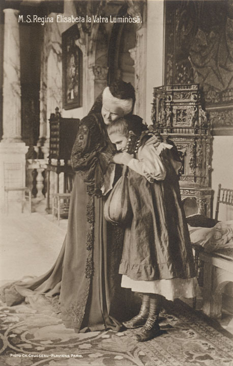 Queen Elisabeth of Romania la Vatra Luminoasă Postcard - Photo Ch. Chusseau-Flaviens, Paris